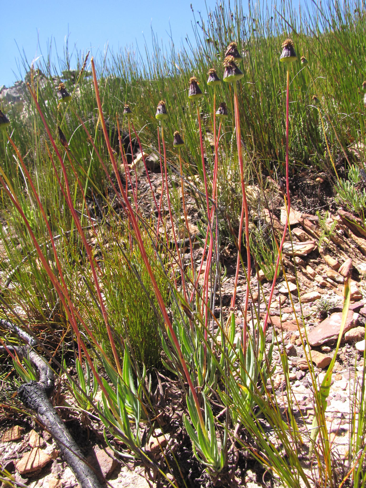 Phaneroglossa bolusii, photographed by Nick Helme, on 12 January 2014, at the Witzenberg Mountains east of Tulbagh, southwest of Ouplaas, Tulbagh County, Western Cape province of South Africa, on a dry rocky ridge, at an altitude of 1140 m.